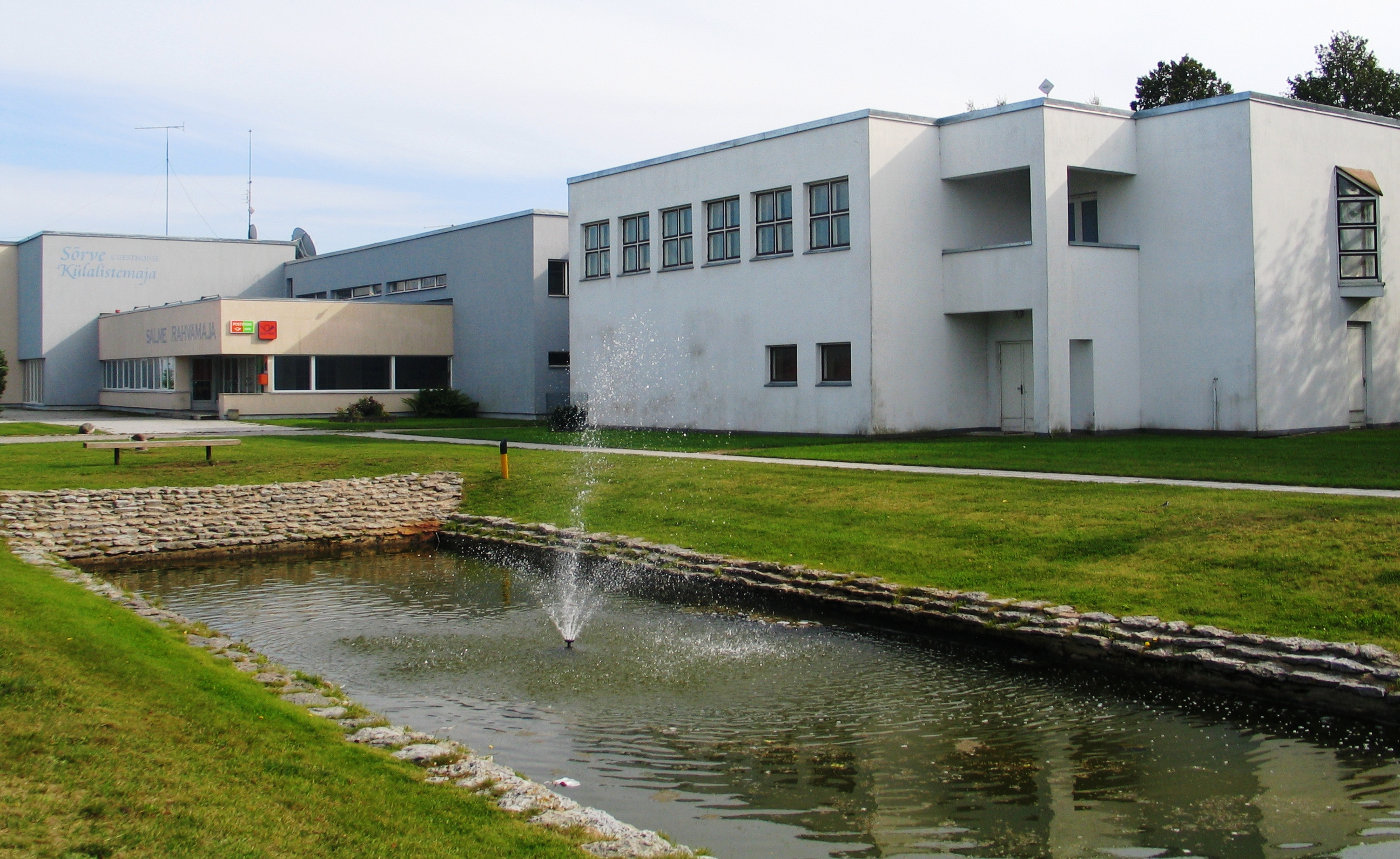 Sõrve guesthouse and Salme culture house